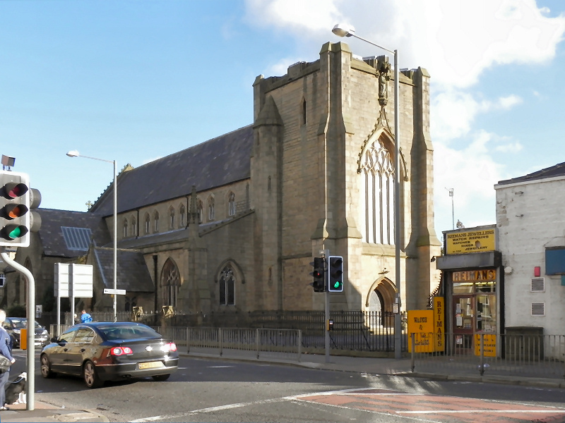 Photograph of St Mary's Church, Burnley